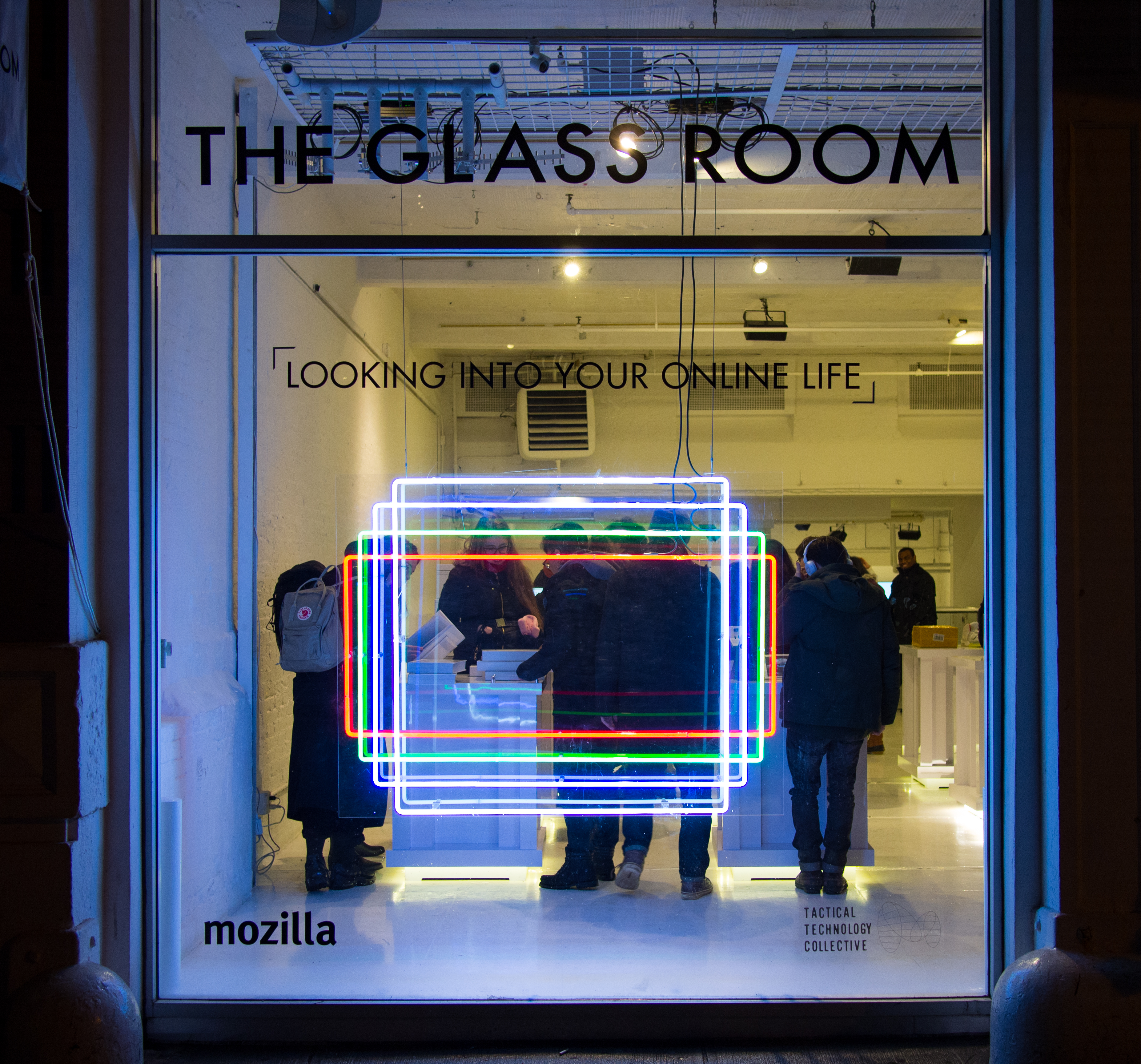 The exterior of the Glass Room, a pop-up exhibit in Manhattan in 2016, presented by Mozilla and curated by the Tactical Technology Collective (Tactical Tech).